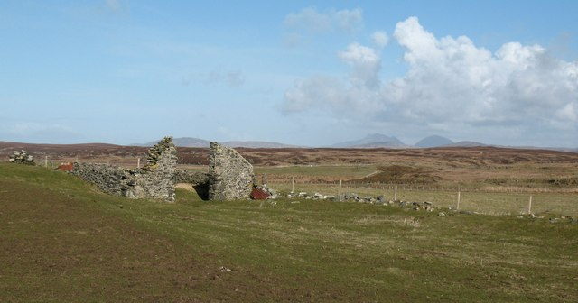 Remains of a barn at Sanaigmore Situated at the back of the dunes where sand gives way to pastureland.